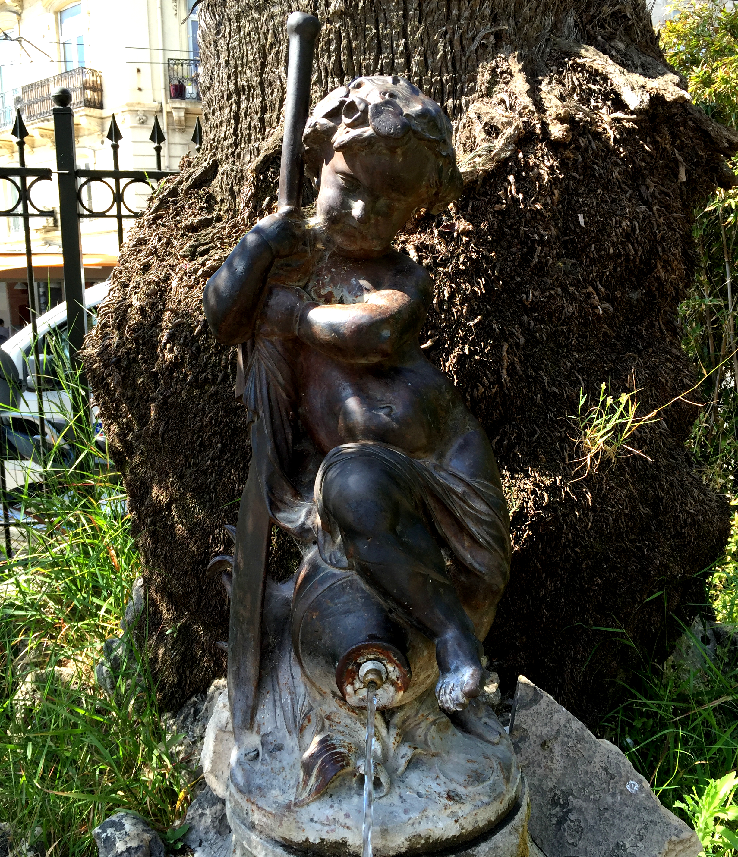 Fountain " child rowing " in the square Planchon at Montpellier (Hérault).